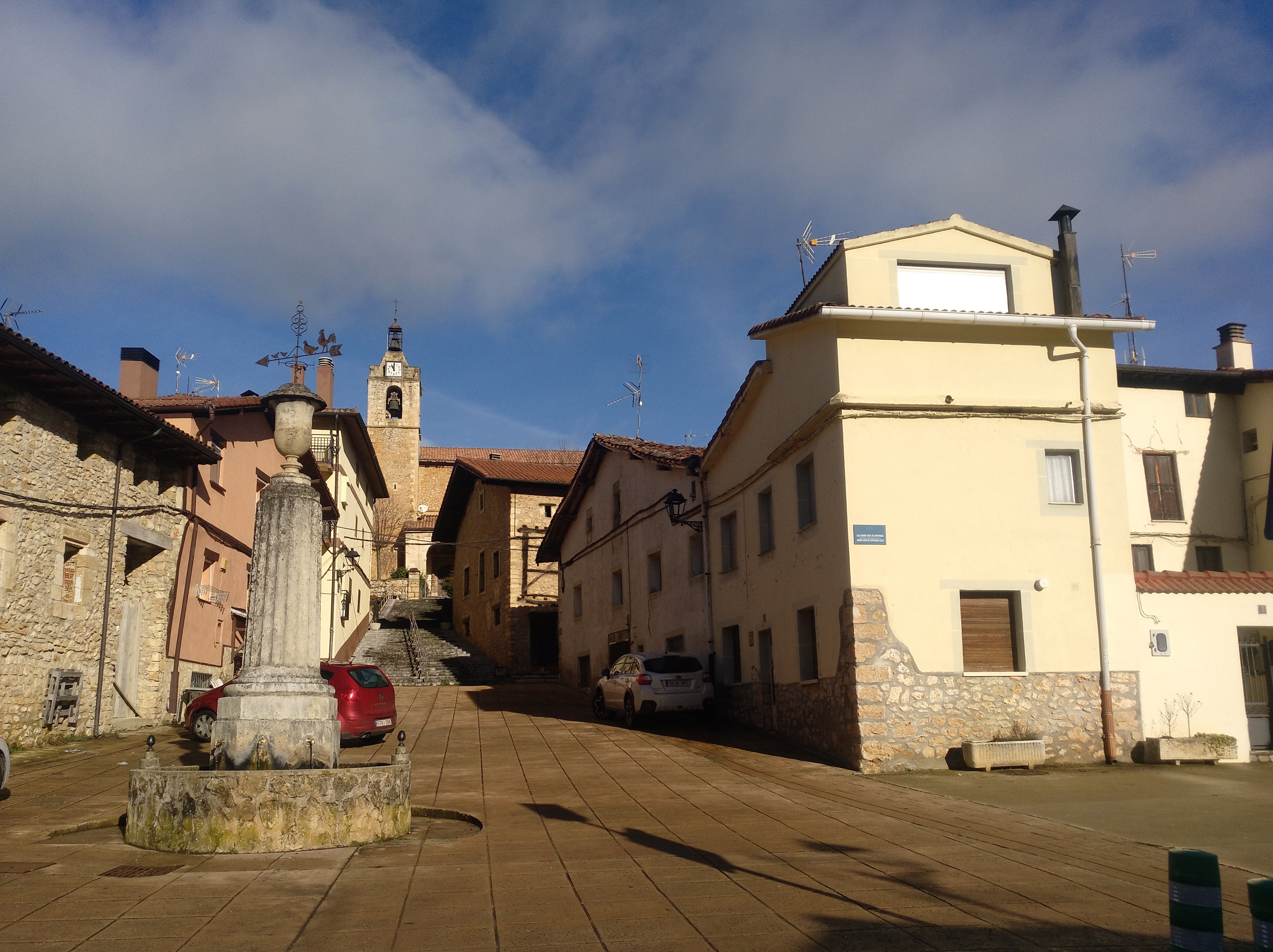 Lagran (Araba, Basque Country)